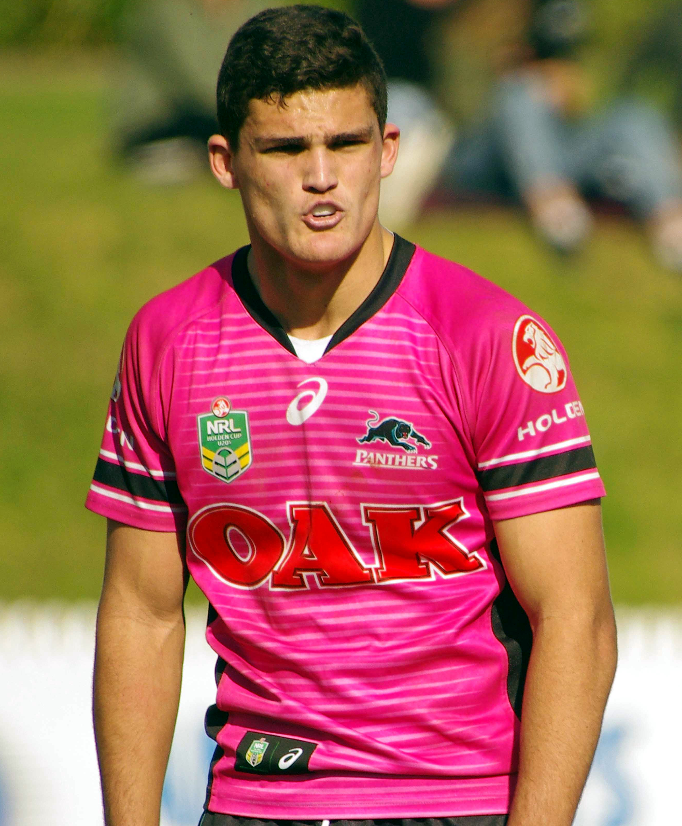 Nathan Cleary